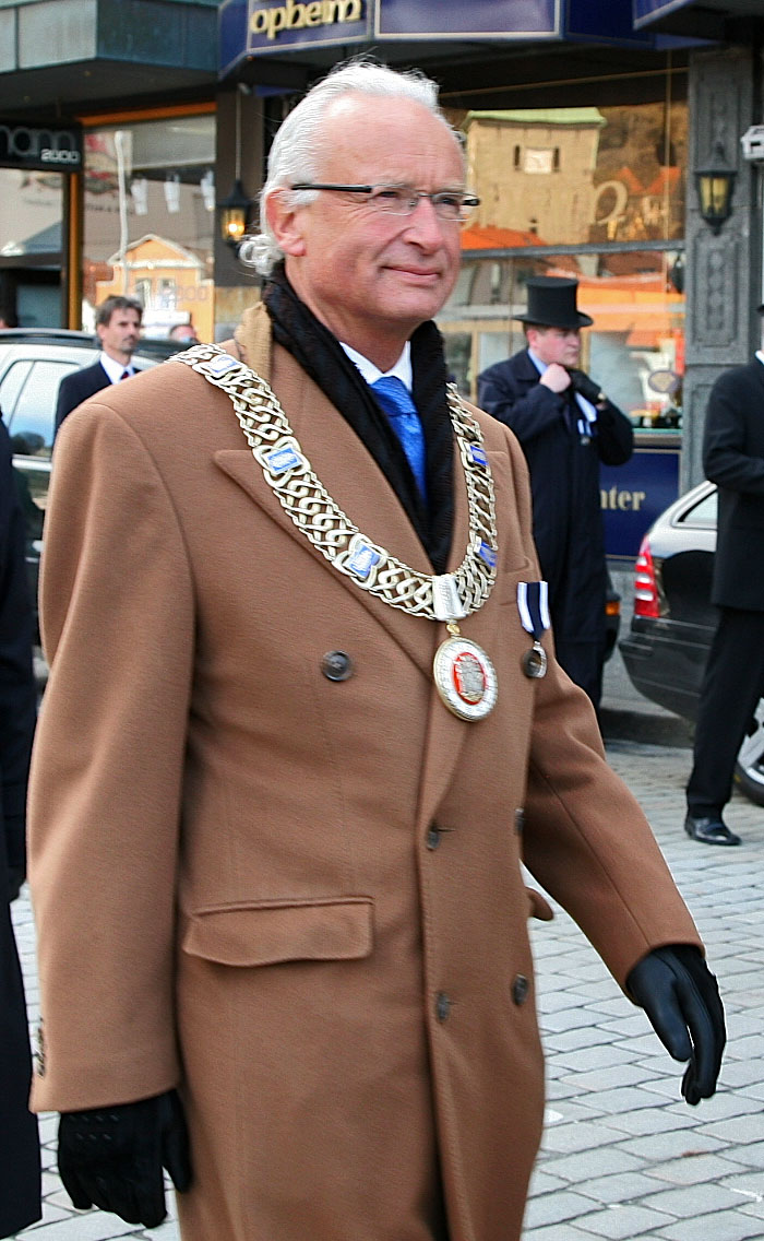 Herman Friele (corrected overexposure)